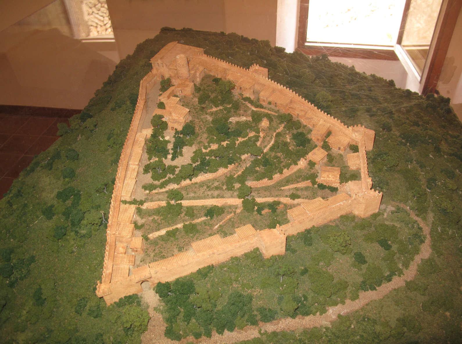 Castell de Capdepera in Capdepera, Mallorca.